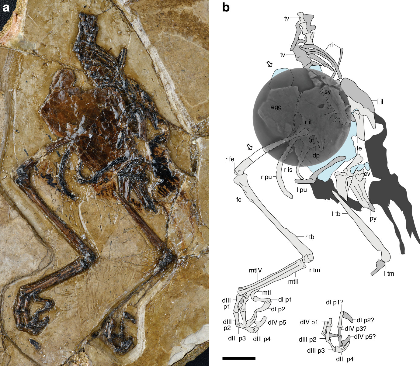 Fossil - Avimaia schweitzerae - Photo Partial Skeleton - Interpretive Line Drawing[1][2][3] Photograph and line drawing of the holotype of Avimaia schweitzerae, IVPP V25371. a Photograph of the partial skeleton with feather impressions, and the crushed preserved egg between the pubes; b interpretive line drawing, with white arrows indicating the two fragments extracted for microscopic analysis with a super-imposed CT-scan revealing the egg and underlying elements of the right pelvis in dorsal (synsacrum) and medial (ilium) view. Gray denotes bones (darker gray indicating poor preservation), blue denotes the egg, and dark gray denotes feather impressions. cv caudal vertebra, d digit, dp dorsal process, f fibula, fc fibular crest, fe femur, if ilioischiadic foramen, il ilium, is ischium, l left, mt metatarsal, p pedal phalanx, pu pubis, py pygostyle, r right, ri rib, sy synsacrum, tb tibiotarsus, tm tarsometatarsus, tv thoracic vertebra. Scale bar is 1 cm[1] References ↑ a b Bailleul, Alida M. (20 March 2019). "An Early Cretaceous enantiornithine (Aves) preserving an unlaid egg and probable medullary bone". Nature Communications 10. Retrieved on 22 March 2019. ↑ Pickrell, John (20 March 2019). "Unlaid egg discovered in ancient bird fossil". Science. Retrieved on 22 March 2019. ↑ Greshko, Michael (20 March 2019). "In a first, fossil bird found with unlaid egg - “I couldn’t even sleep at night,” the lead paleontologist says of her reaction to the discovery.". National Geographic Society. Retrieved on 22 March 2019.